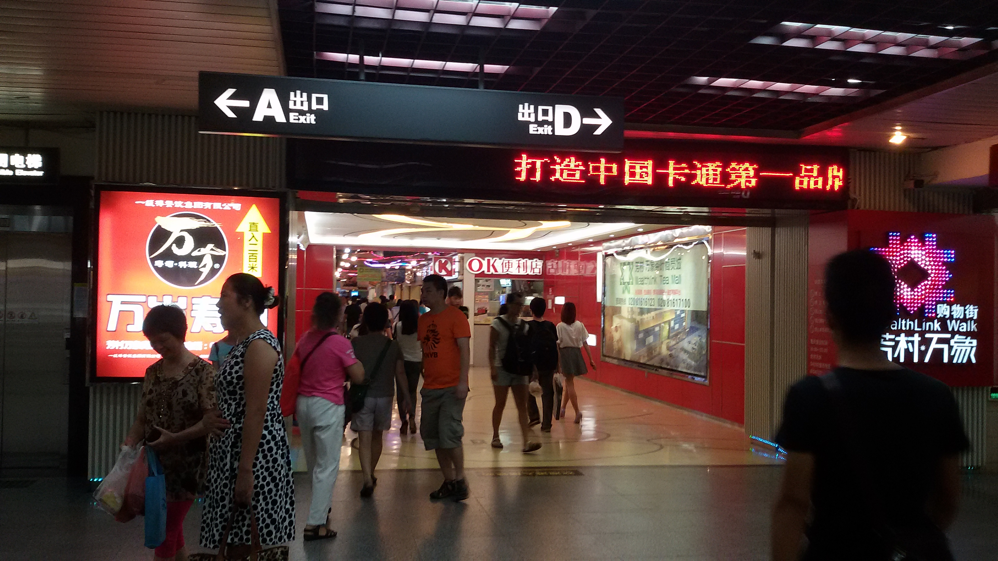 WealthLink Walk